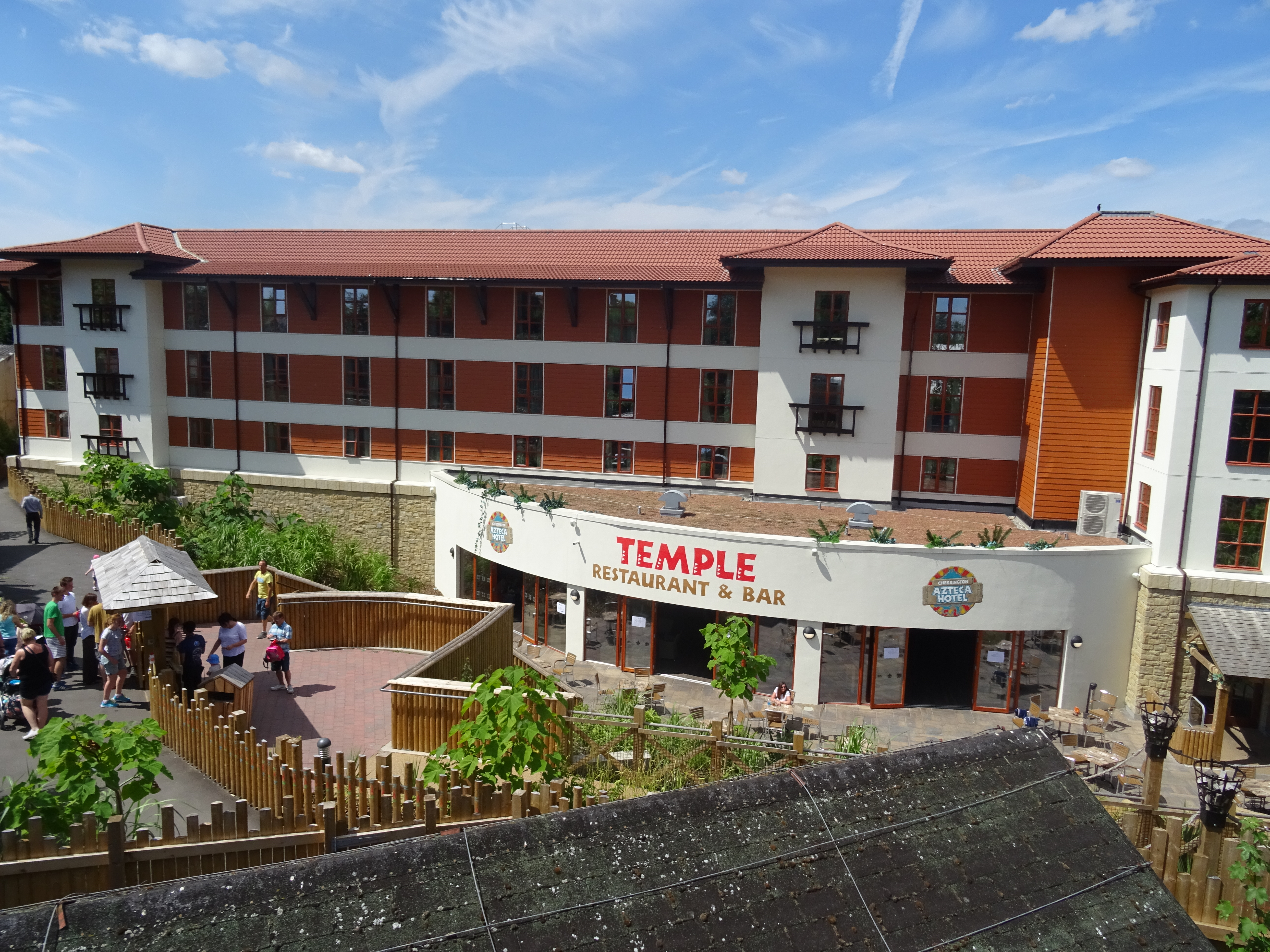 Azteca Hotel at Chessington World of Adventures Resort.